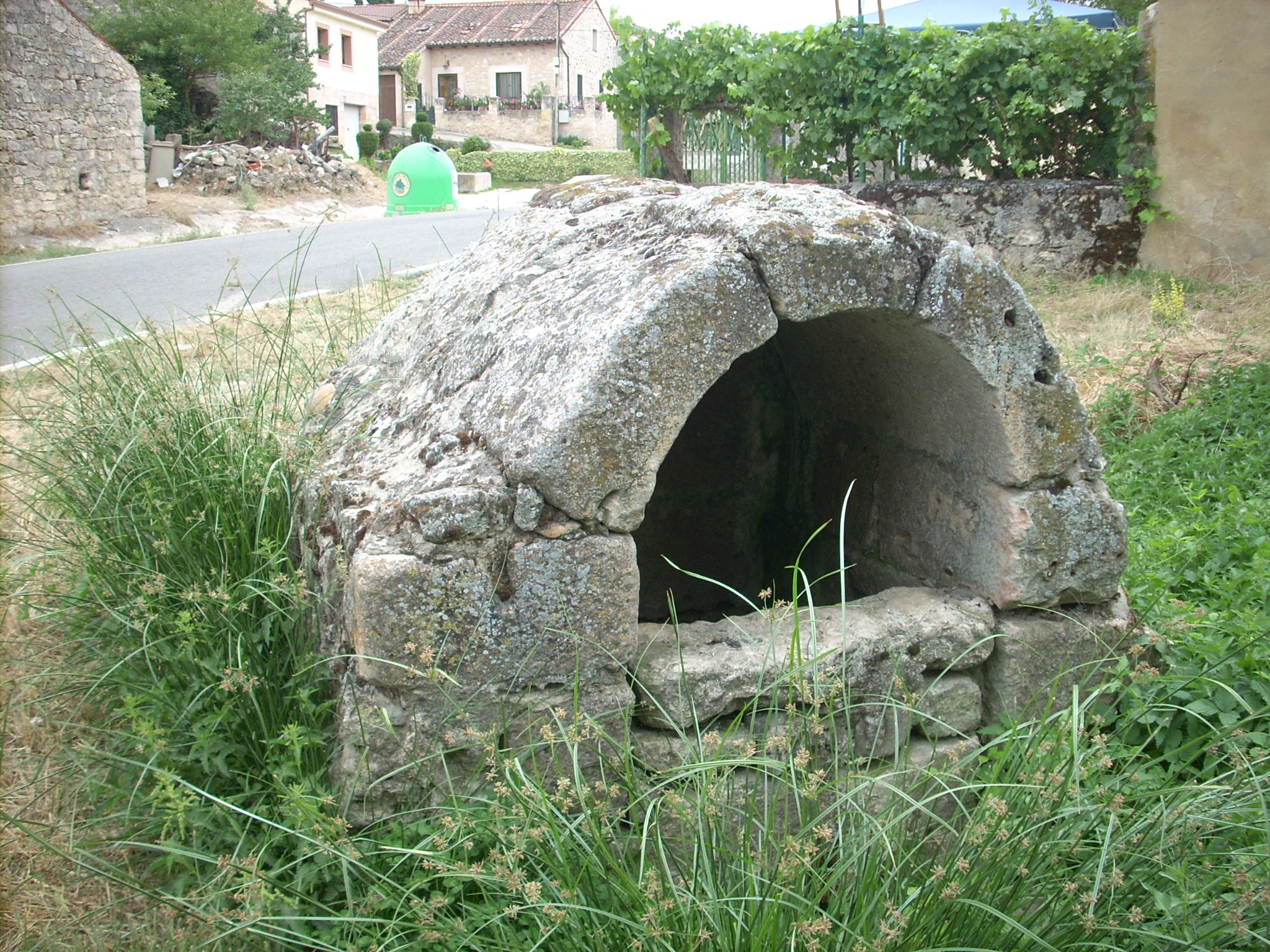 roman well in Duratón